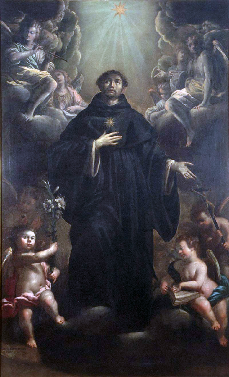 Nicholas of Tolentino